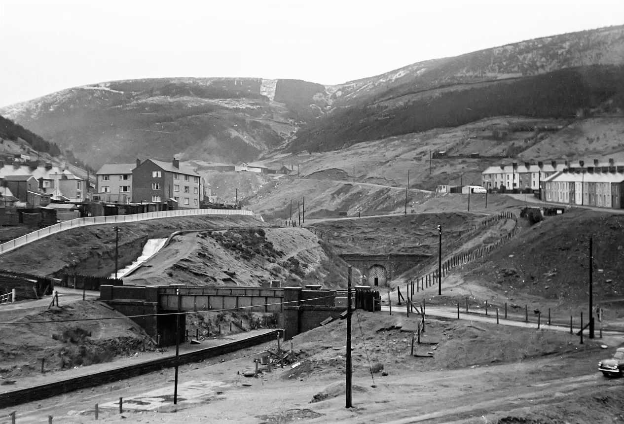 A shot of the Blaengwynfi end of the tunnel and the closed station. The stream mentioned above can be seen to the right. Also visible is the top of the air shaft just a few yards into the tunnels length.